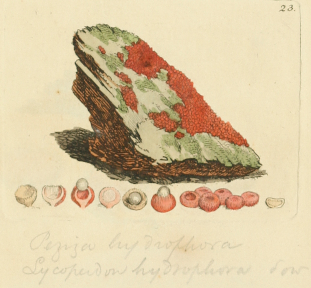 This is a plate from James Sowerby's Coloured Figures of English Fungi or Mushrooms.